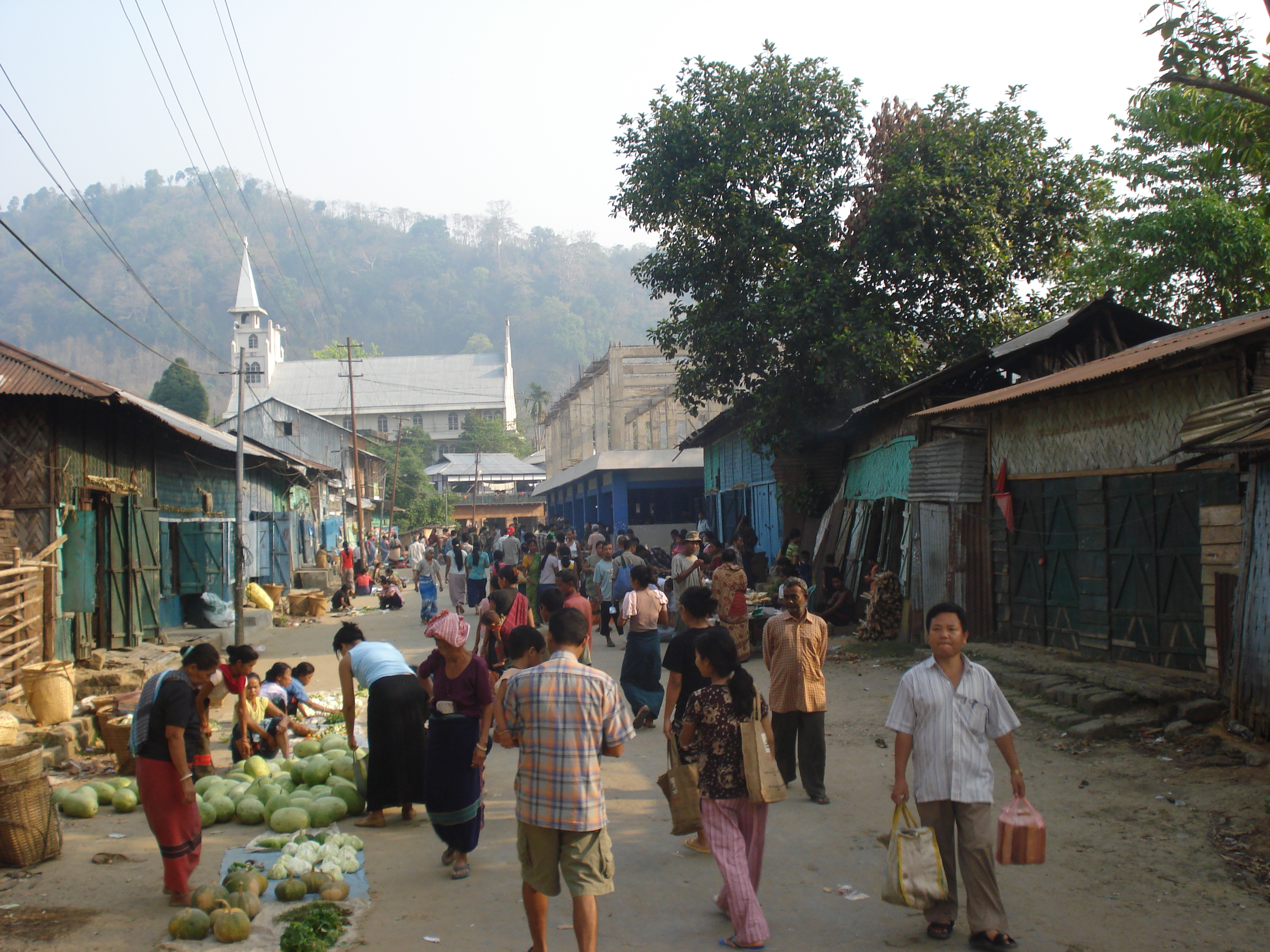 Tlabung Market